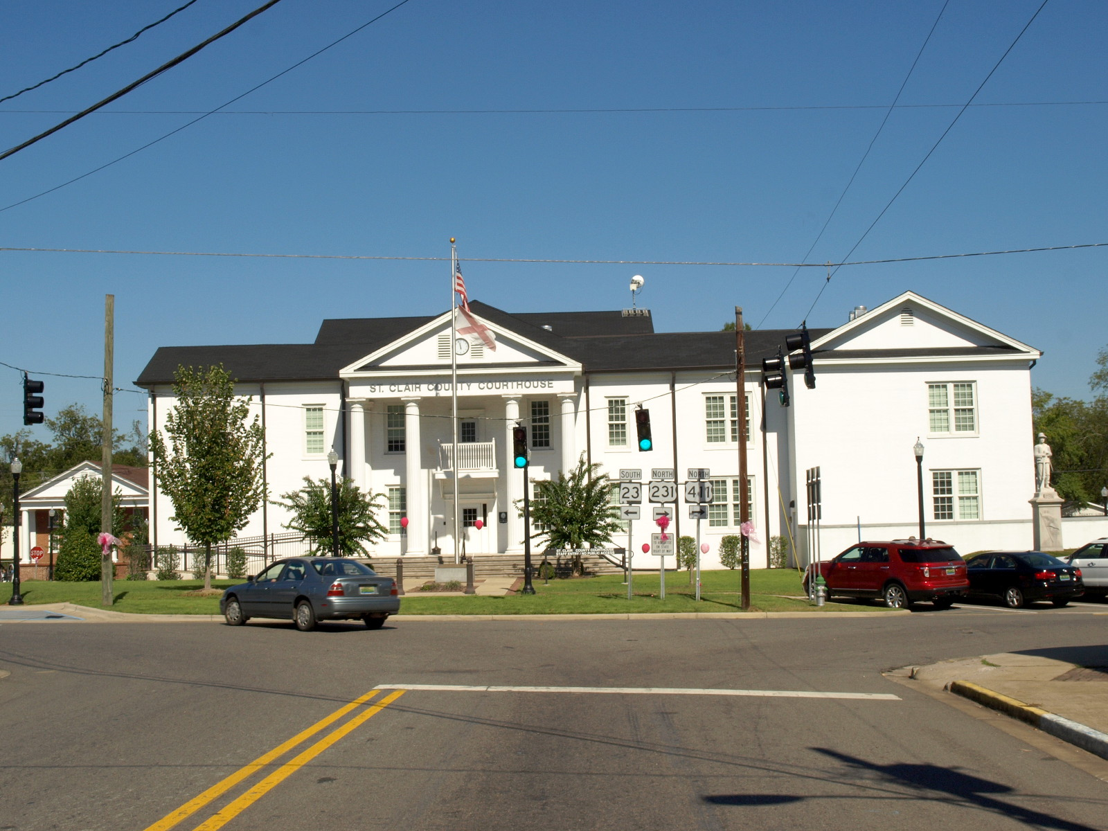 The St. Clair County Courthouse in Ashville, Alabama, part of the Ashville Historic District.